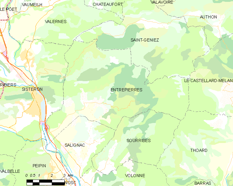 Map commune FR insee code 04075.png Légende